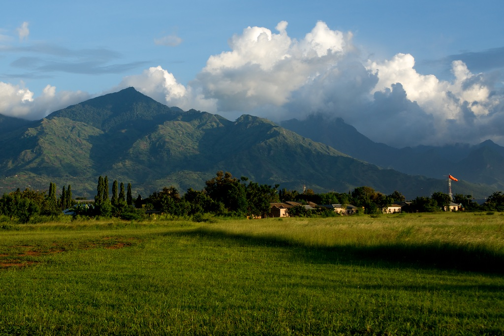 Grass runway